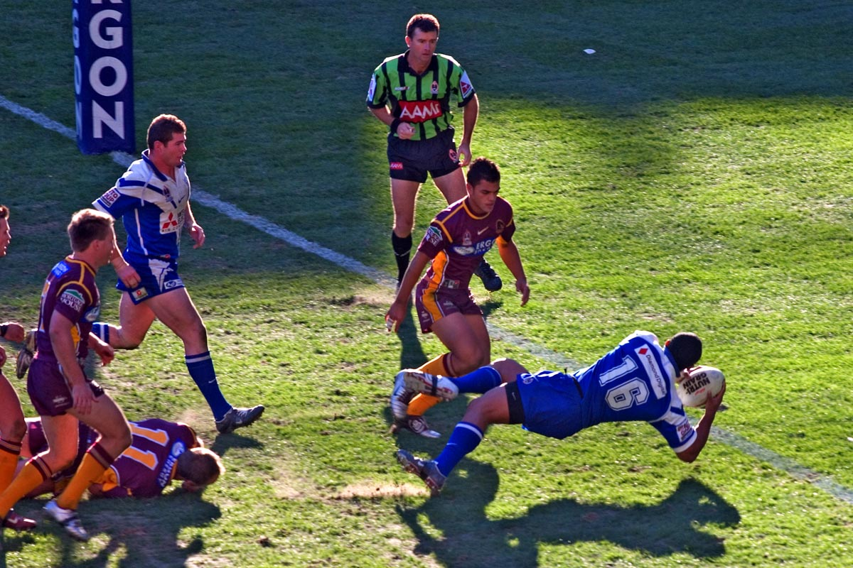 Australian Rugby league match Brisbane Broncos vs Bulldogs.